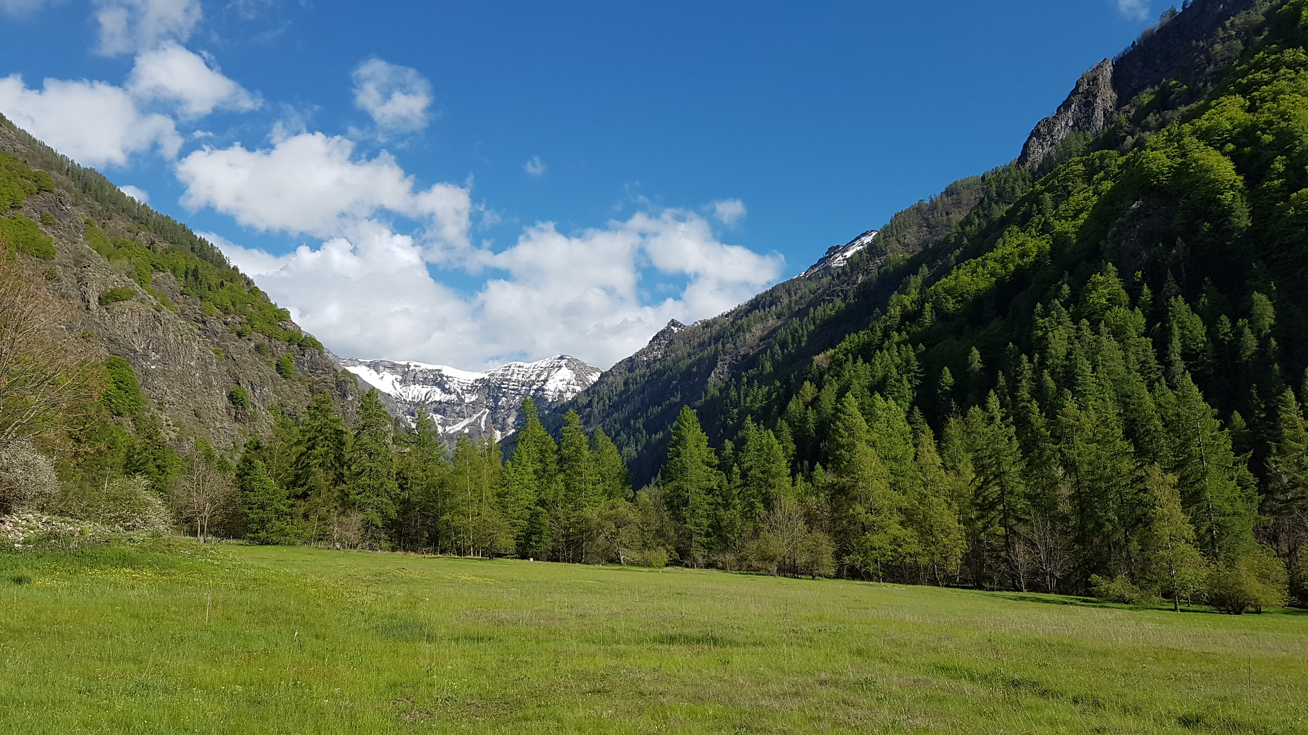 Alpine valley of the Ecrins massif in France, in the Champsaur region, at an altitude of about 1220 m. Meadow, forest, mountain, snow-covered peaks